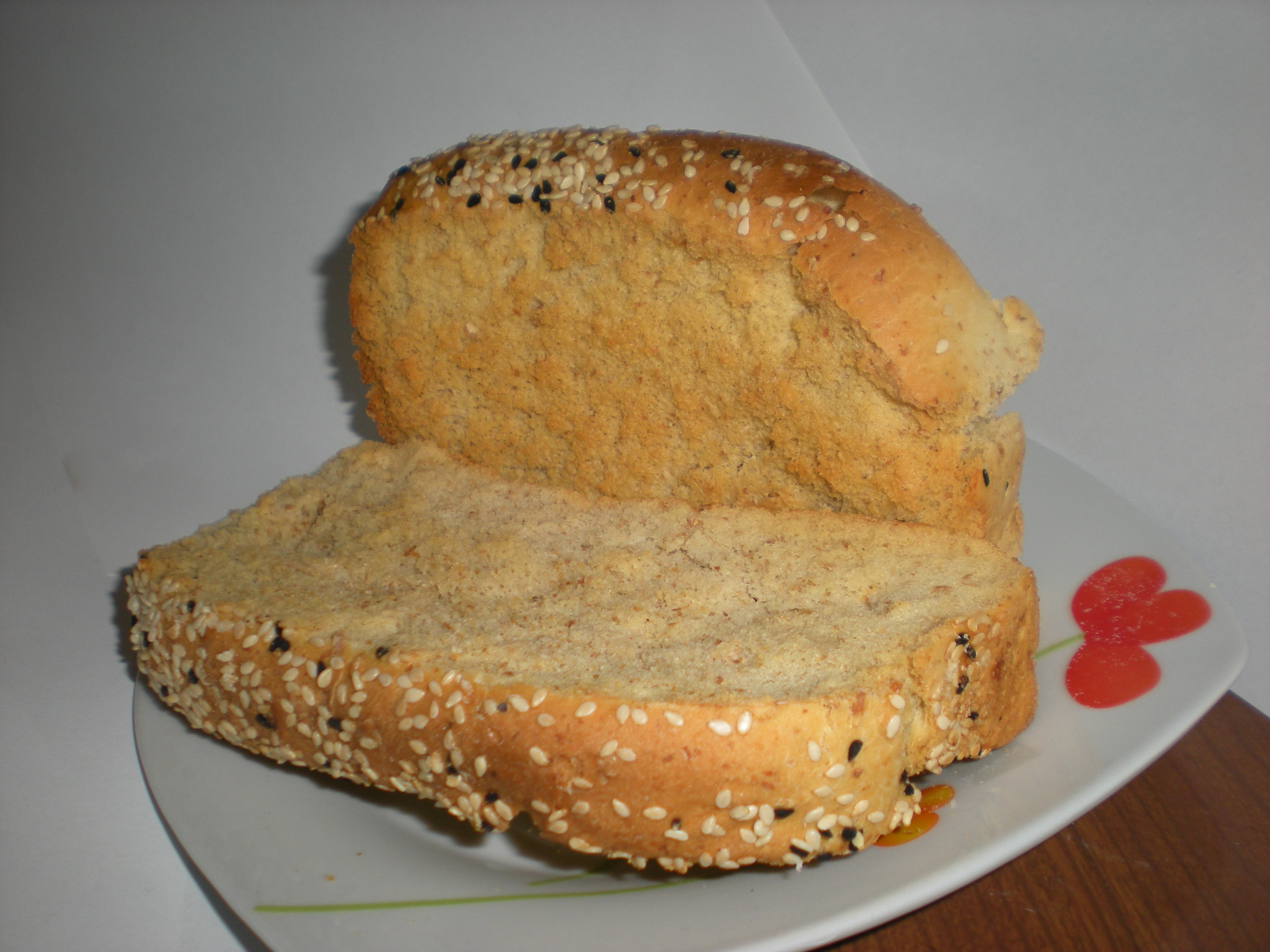 Two slices of bread baked until they are hard and crisp on a small plate.